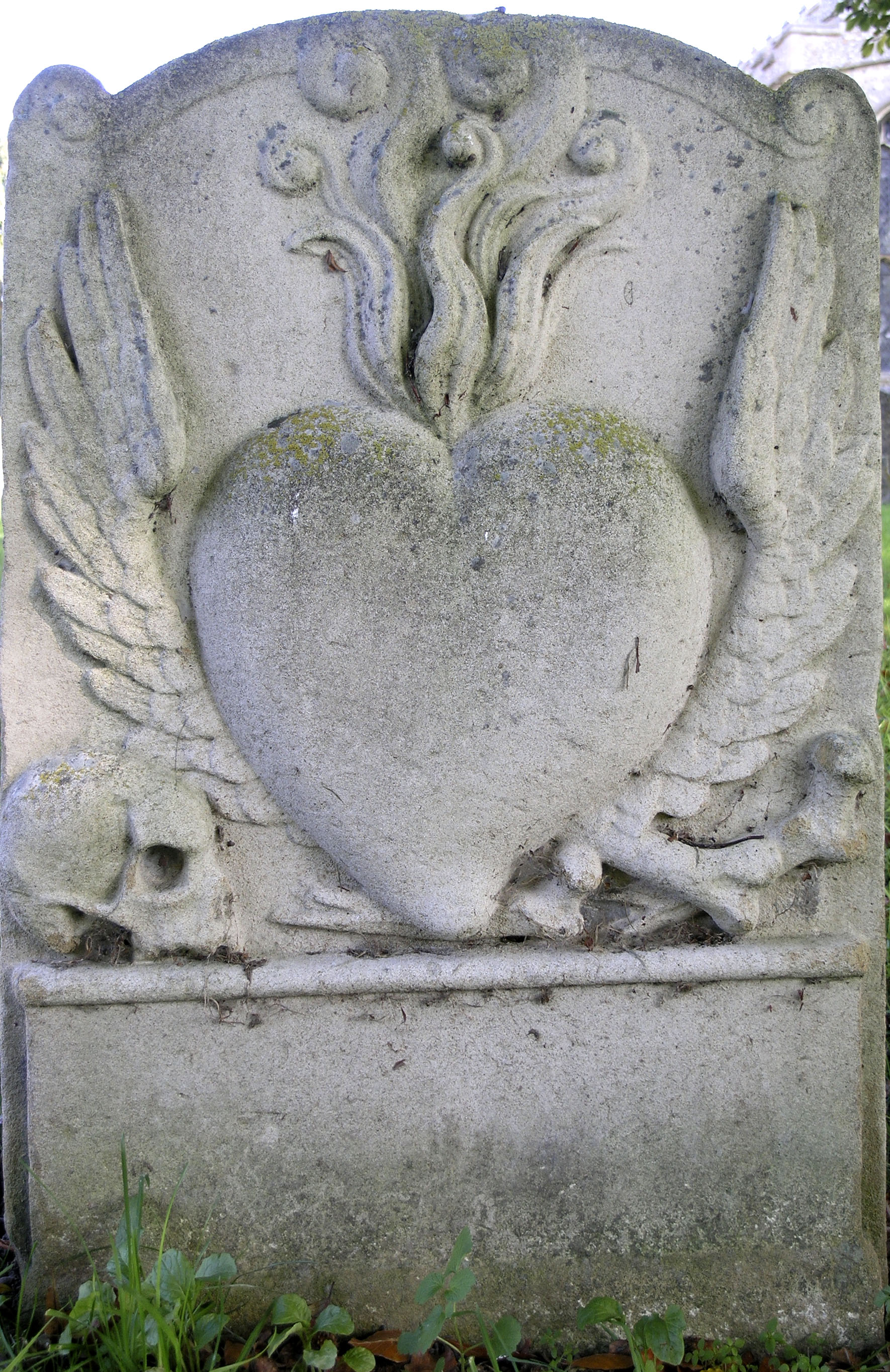 Barn Fire memorial, Burwell, Cambridgeshire - Reverse